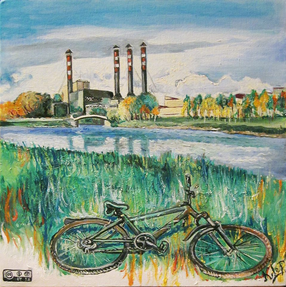 The road to Serabranka District. 2013, canvas, oil The First Art Work marked with "CreativeCommons" license